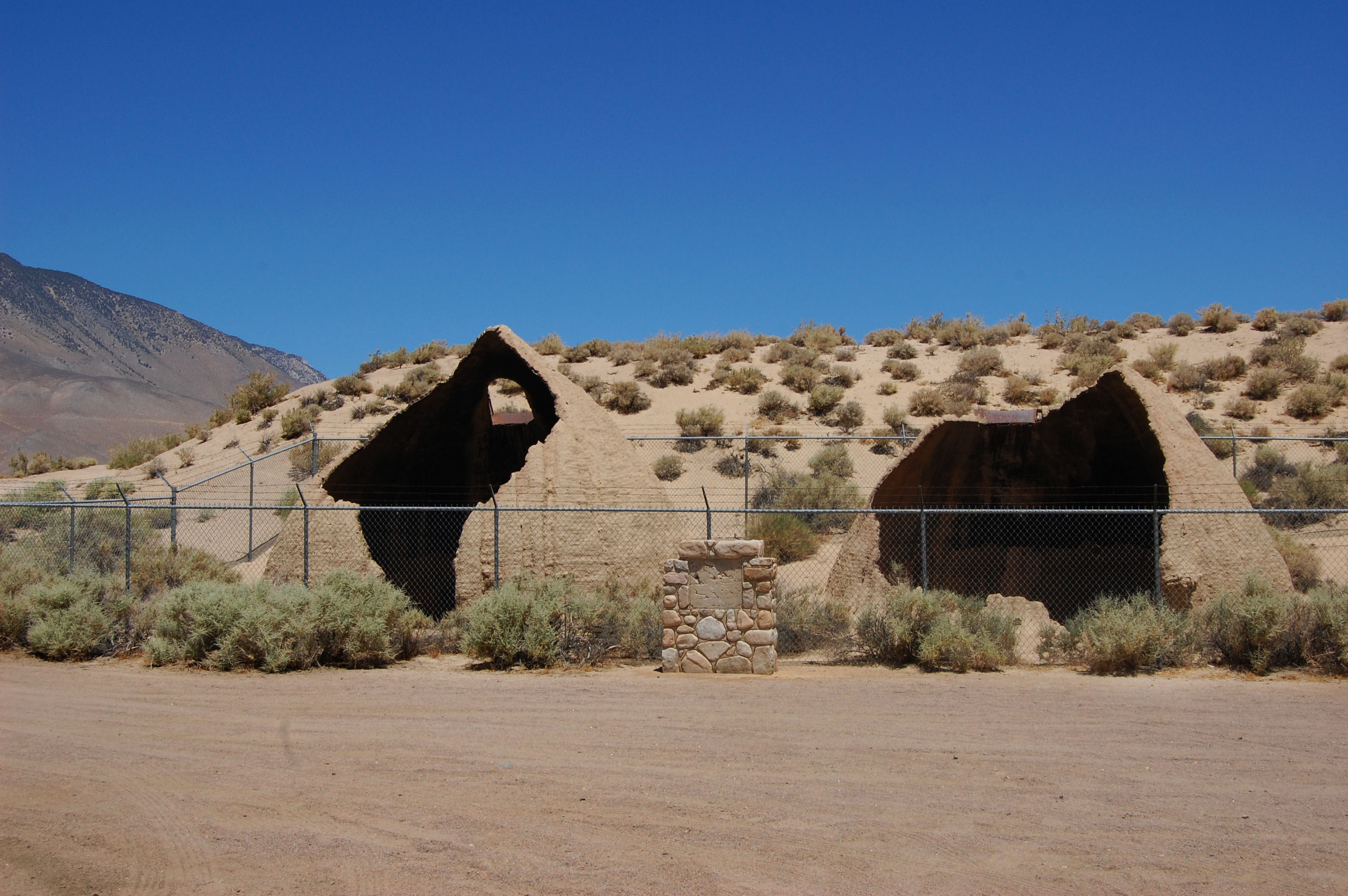 The Cottonwood Charcoal Kilns near Cartago California in the Owens Valley. The kilns were used to turn cottonwood trees into charcoal to power the smelters on the other side of Owens Lake in the late 19th Century.